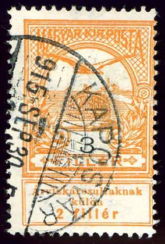 Kingdom of Hungary, issue 1913 stamp, 3 + 2 fillér orange for help to flood victims, cancelled KAPOSVAR in 1915. Michel N°130